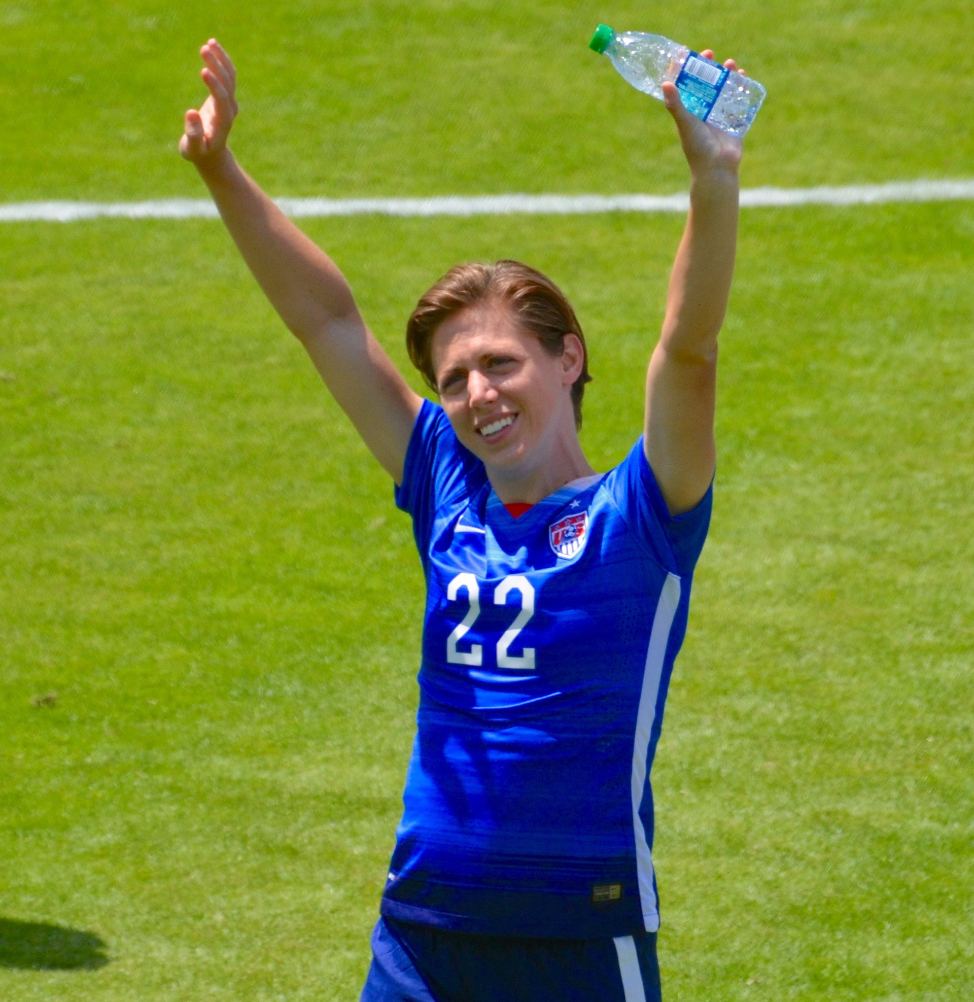 Meghan Klingenberg of the USWNT greeting fans after a game vs the Republic of Ireland on 10 May 2015.